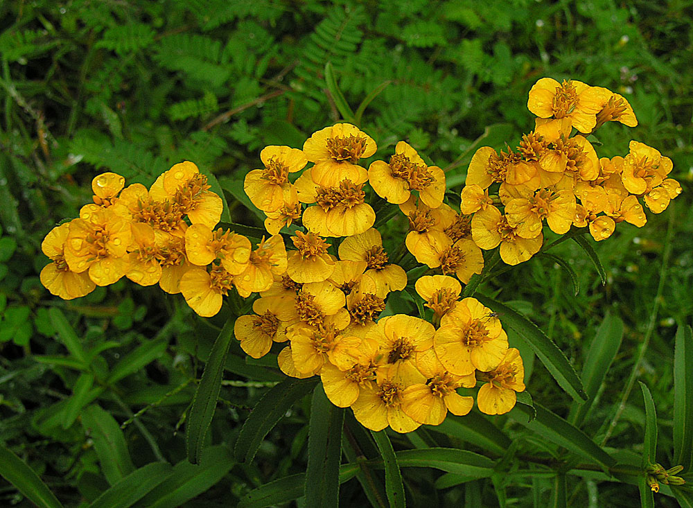 Also known as Mexican Tarragon and appreciated as a condiment and for medicinal and psychoactive properties. Photo from near Oaxaca, Mexico. In context at